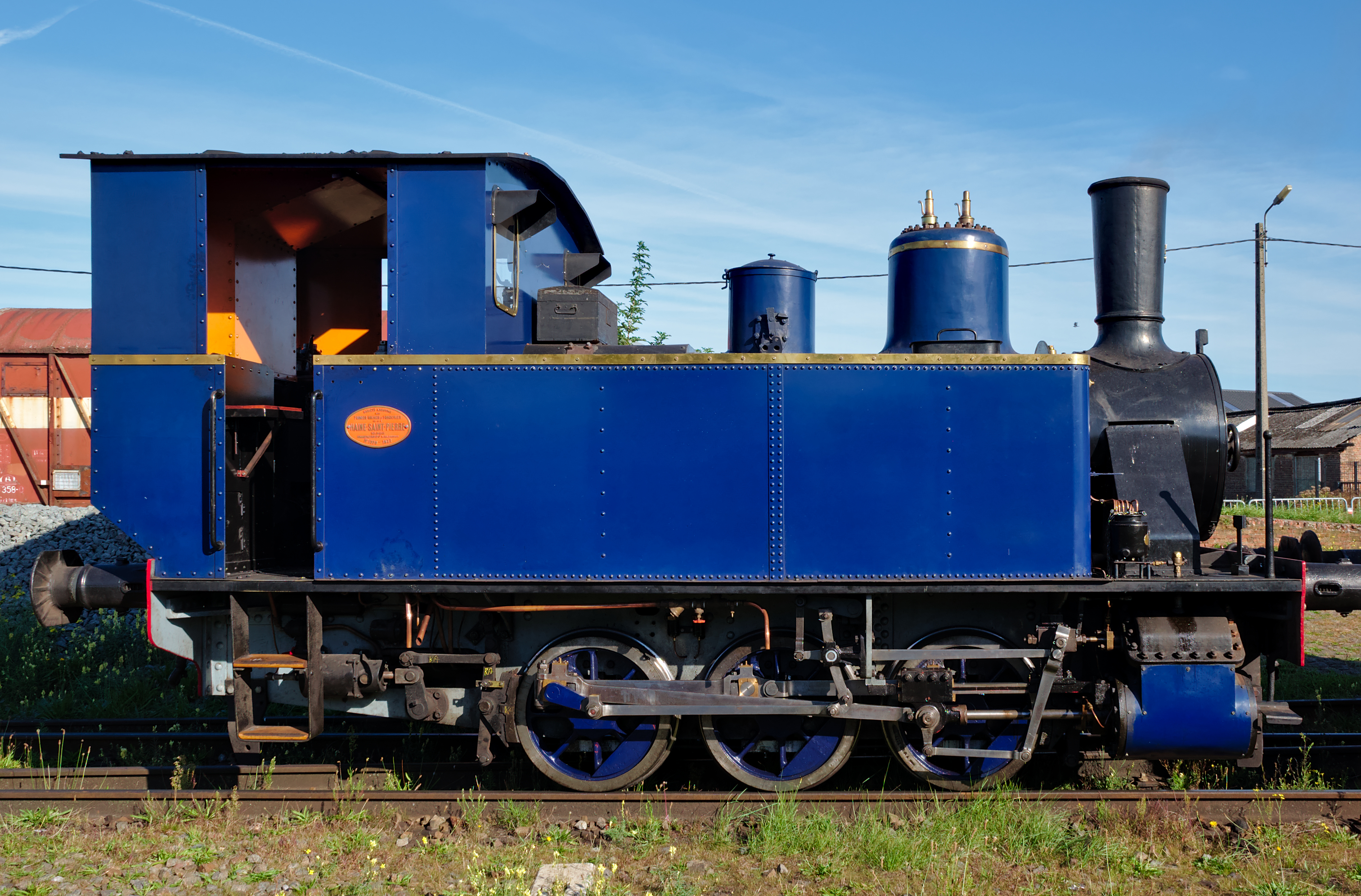 Steam locomotive Haine-Saint-Pierre No. 1378-1922 in Baasrode-Noord train station, Dendermonde This photo of movable heritage has been taken in the Flemish Region